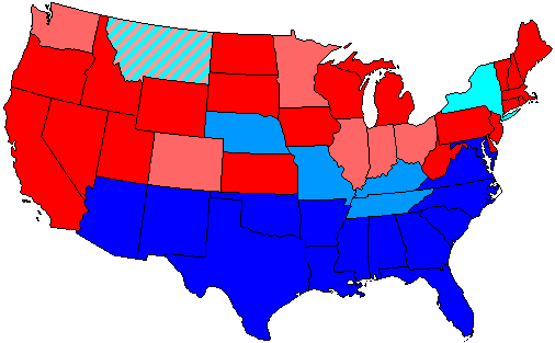 Summary of party control of U.S. house seats in the 70th United States Congress following election. Stripes indicate a tie between two or more parties. Legend: 80.1-100% Democratic seat majority 60.1-80% Democratic seat majority 60% or less Democratic seat plurality 60% or less Republican seat plurality 60.1-80% Republican seat majority 80.1-100% Republican seat majority